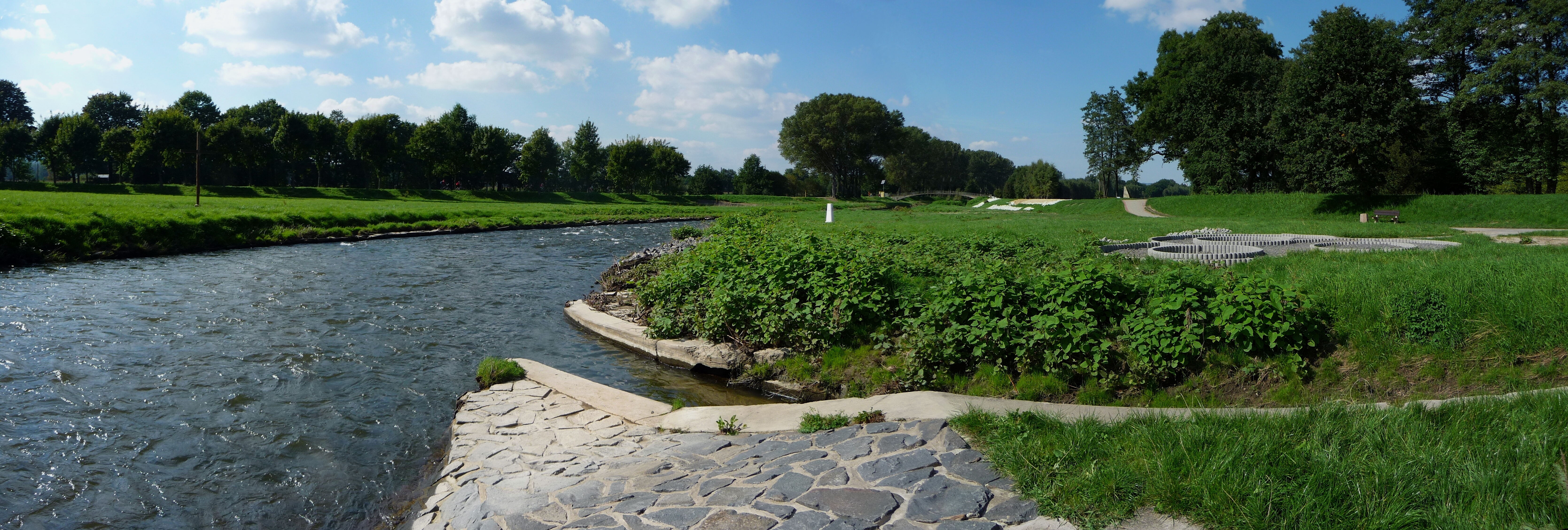 Tripoint at which the Czech, German and Polish borders meet near Hrádek nad Nisou (view from the Czech side).